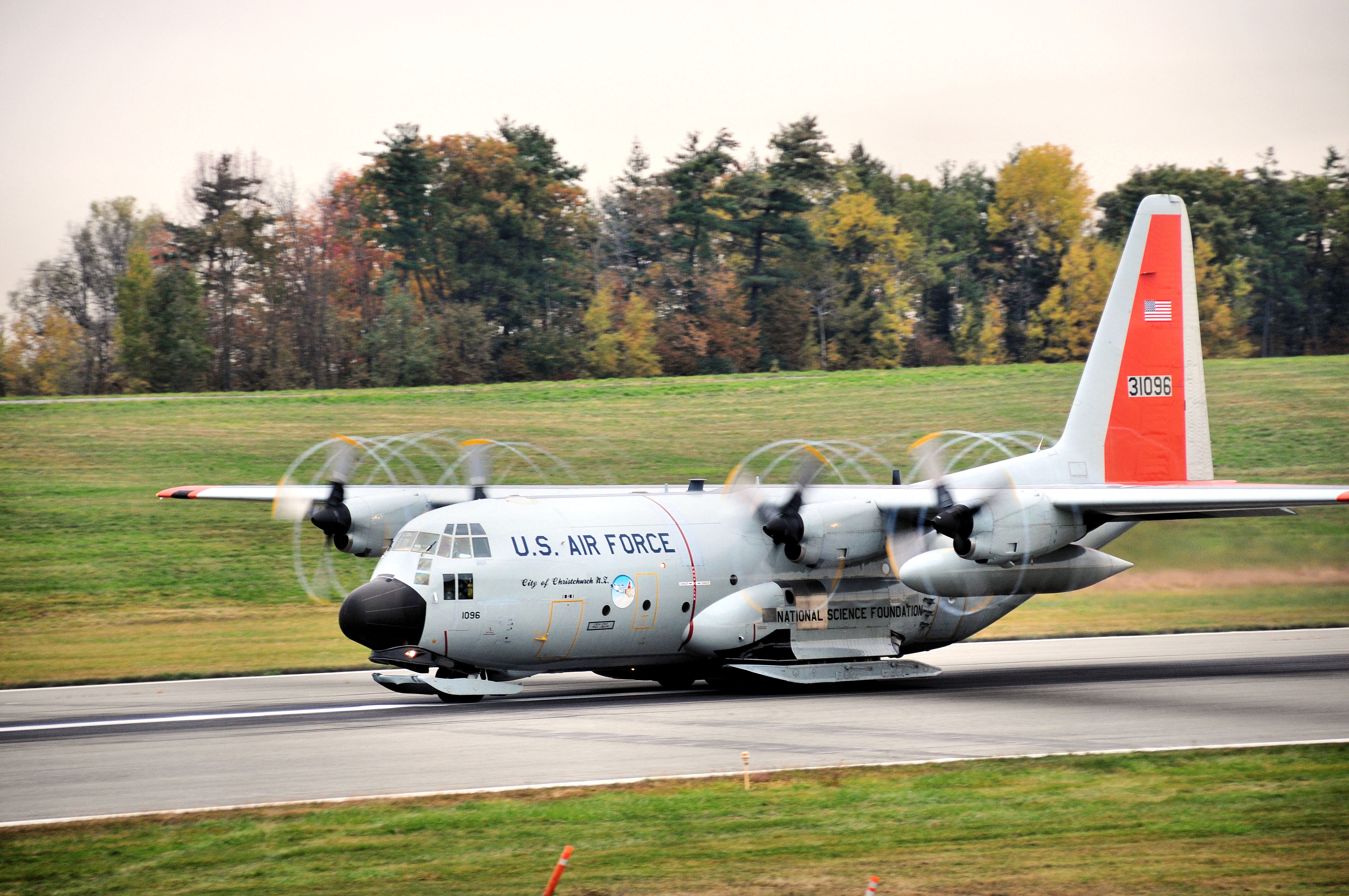 A ski equipped LC-130 Hercules takes off from Stratton Air National Guard Base in Schenecatdy New York. The 109th Airlift Wing sends seven aircraft on the 11.000 mile journey to Antarctica in support of the United States Antarctica Program. The 109th Airlift Wing is part of the New York Air National Guard located in Schenectady New York.